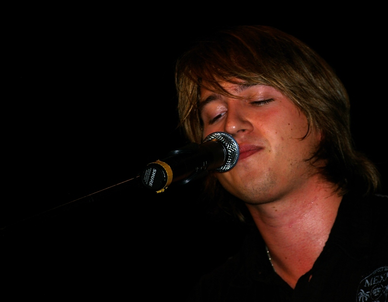 Image taken on November 2009 performance in Malacky